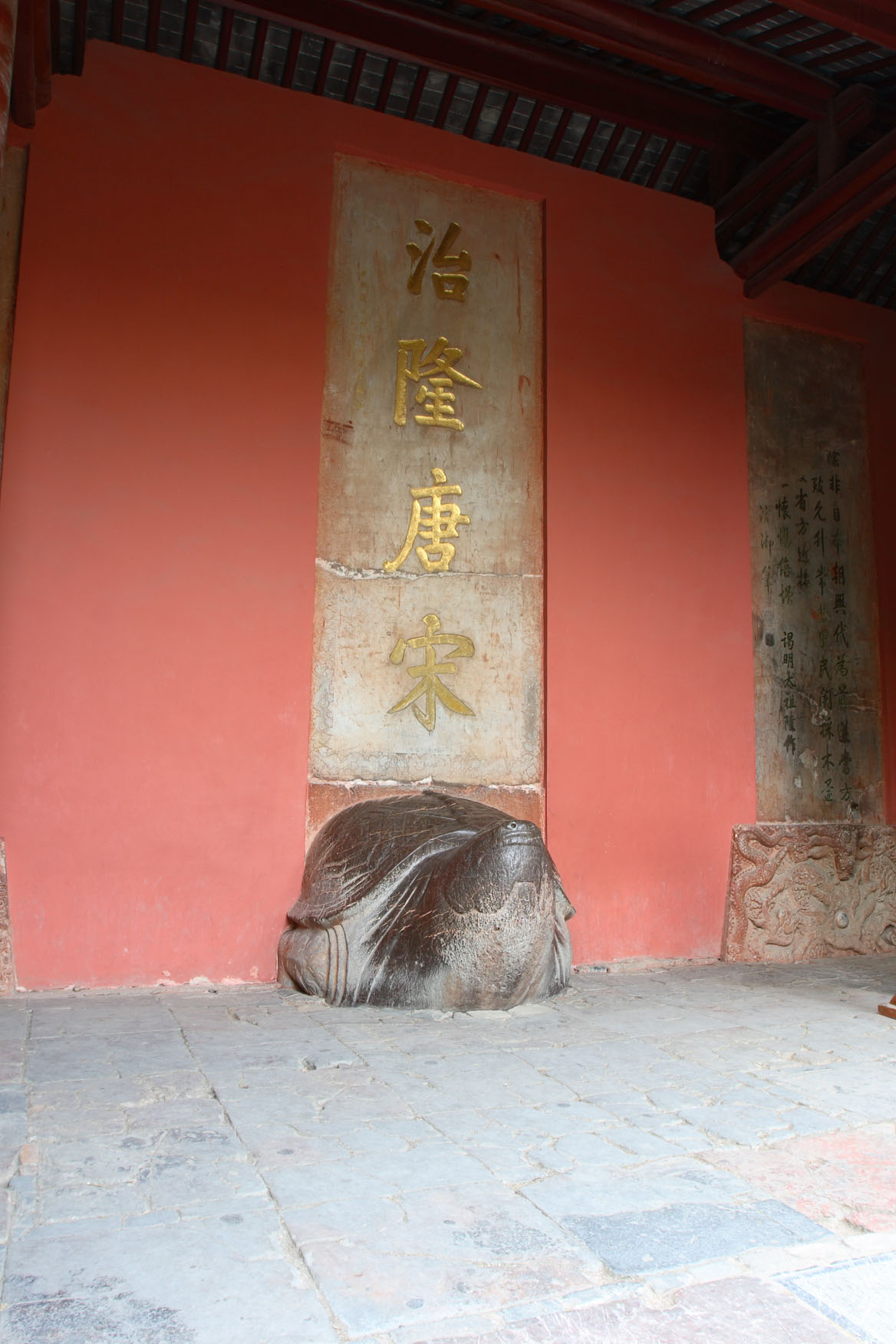 The stele with the Kangxi Emperor's handwriting in honor of the Hongwu Emperor, at the Hongwu's Ming Xiaoling Mausoleum at Nanjing